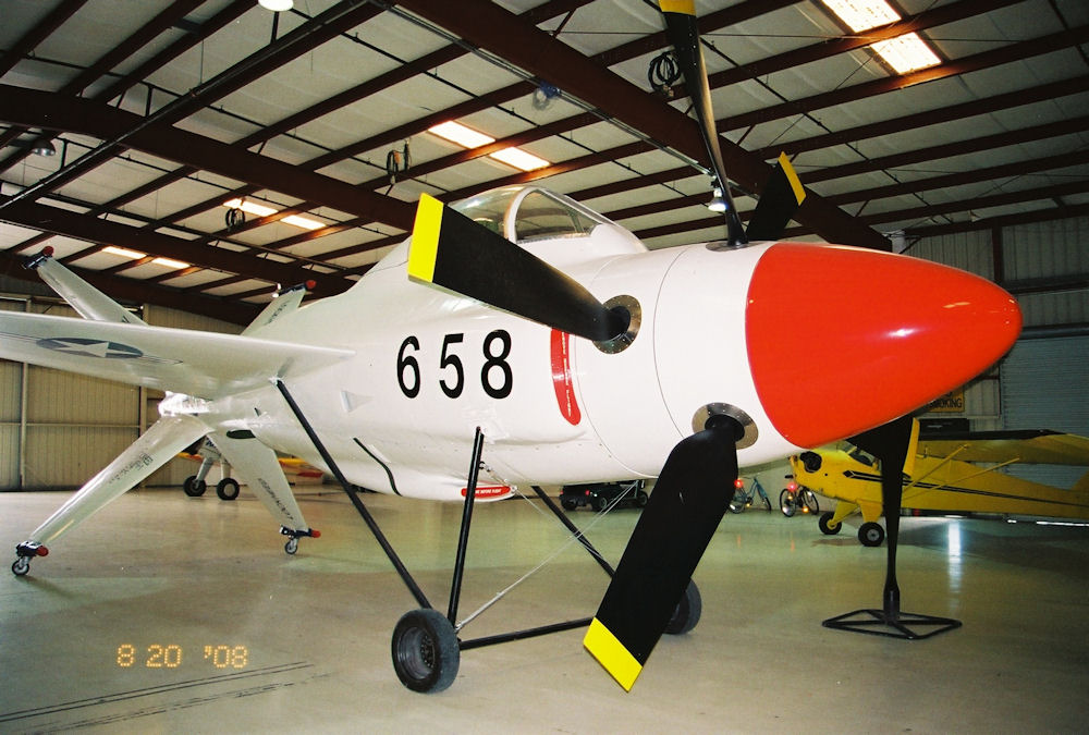 Lockheed_XFV-1_Salmon_RsideNose_FLAirMuse_20Aug08